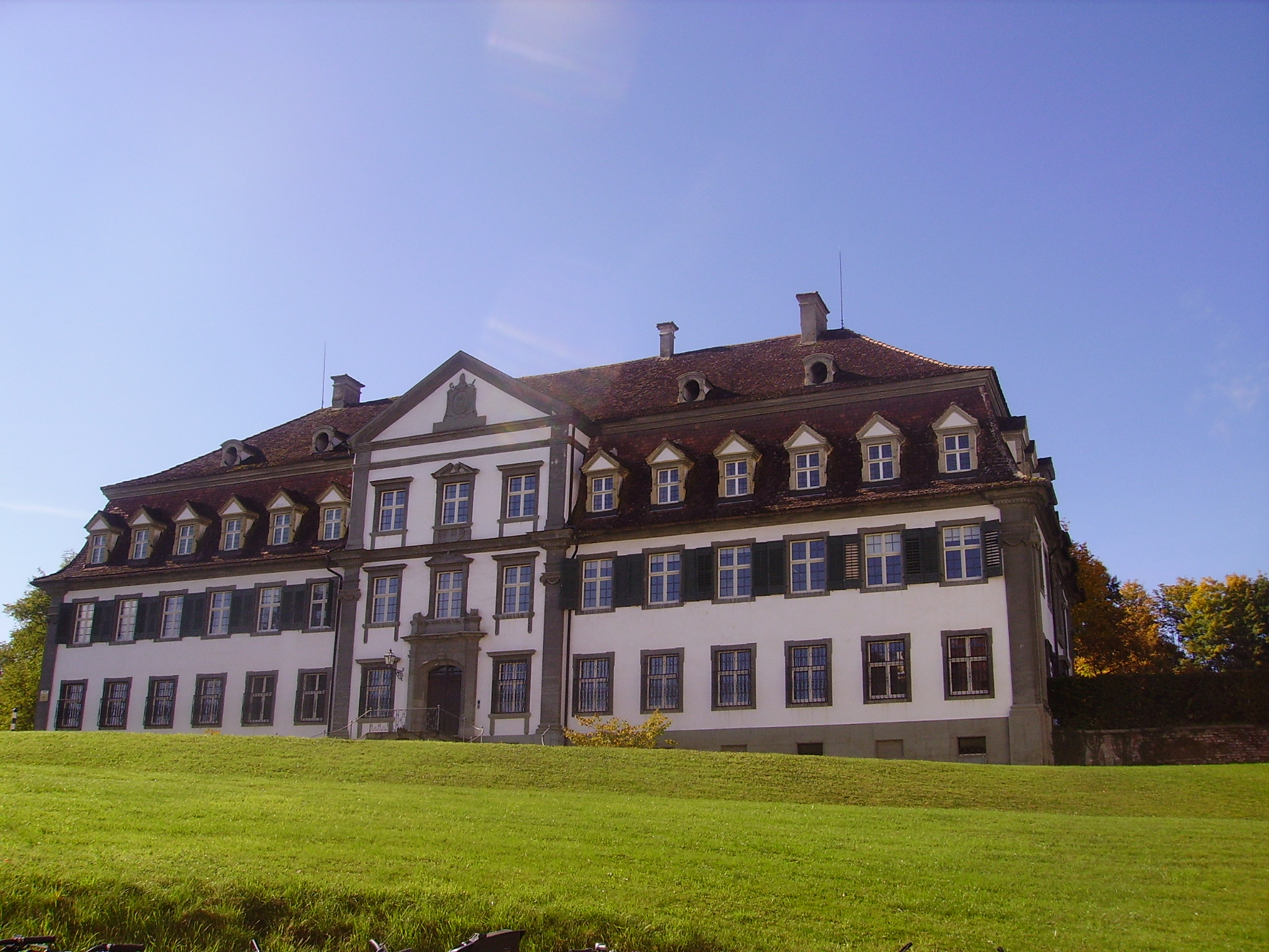 School Building of Salem Abbey, Salem